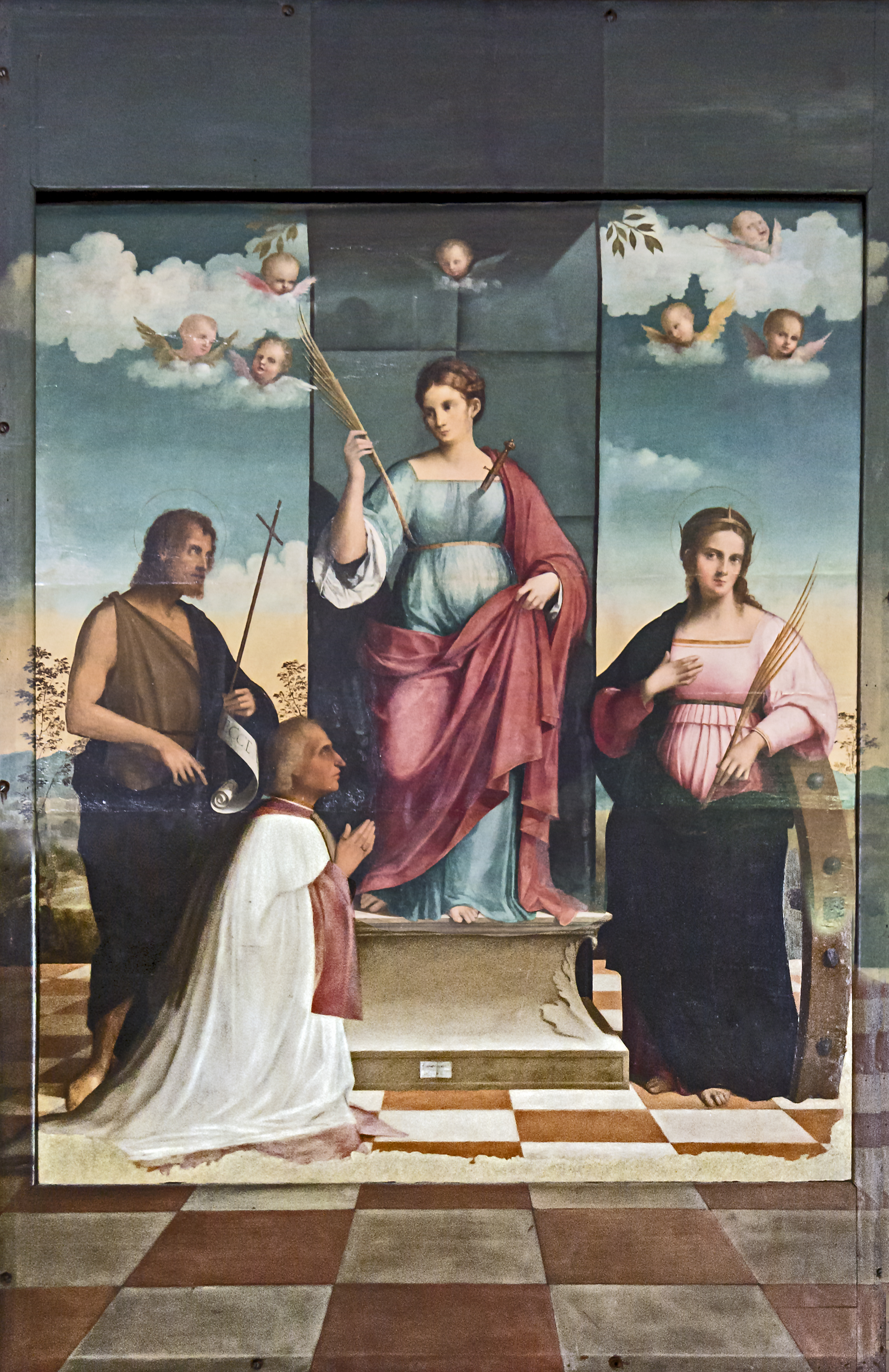 Treviso Cathedral - Chapel Of Santa Giustina- the altarpiece painting - Saint Justine with Saints John the Baptist and Catherine of Alexandria and a donor by Francesco Bissolo